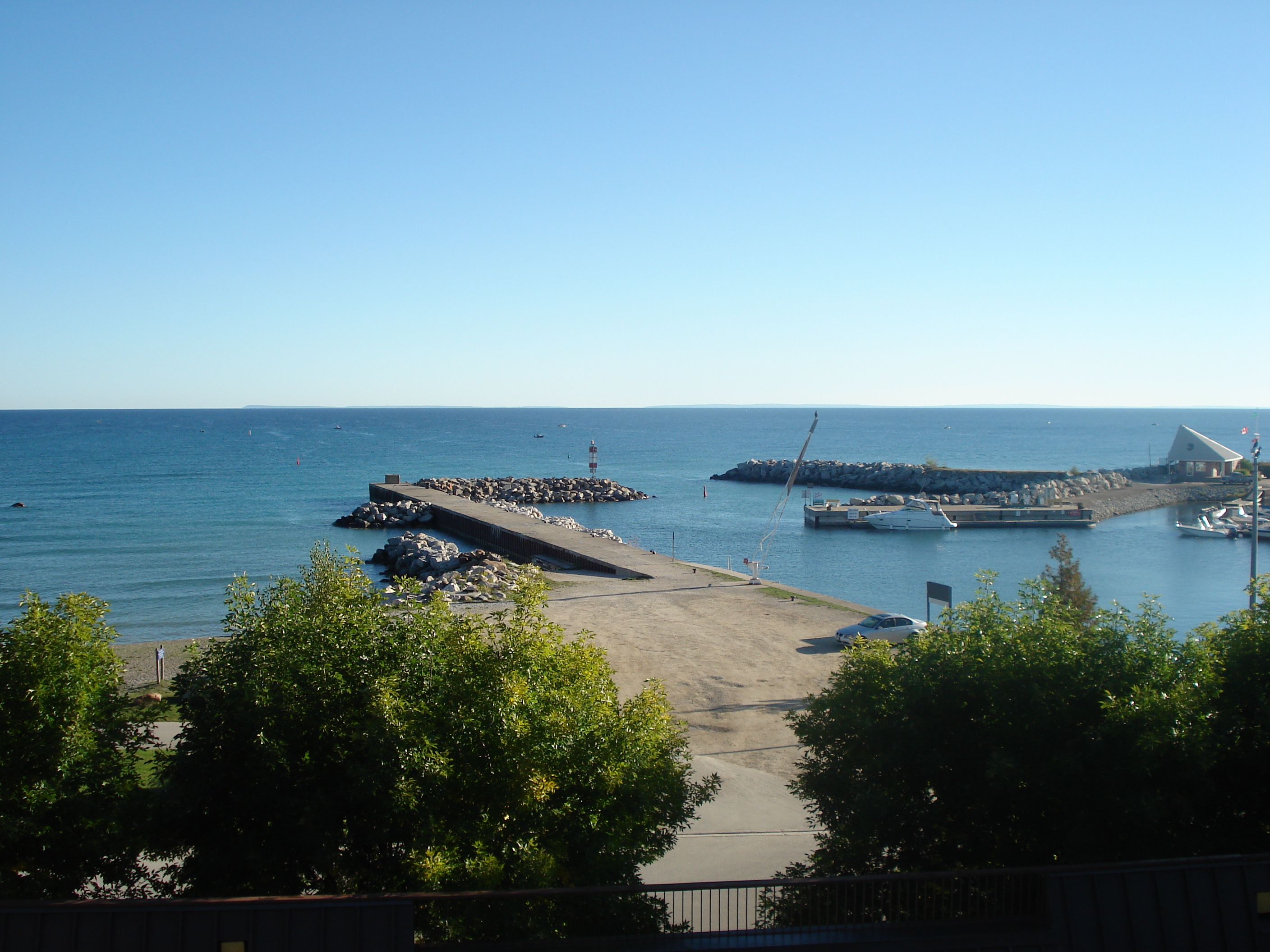 Photograph of the entrance to Thornbury's harbour/marina, taken from the Royal Harbour Resort by Chris Newbert on 23 September 2007 and released into the public domain.